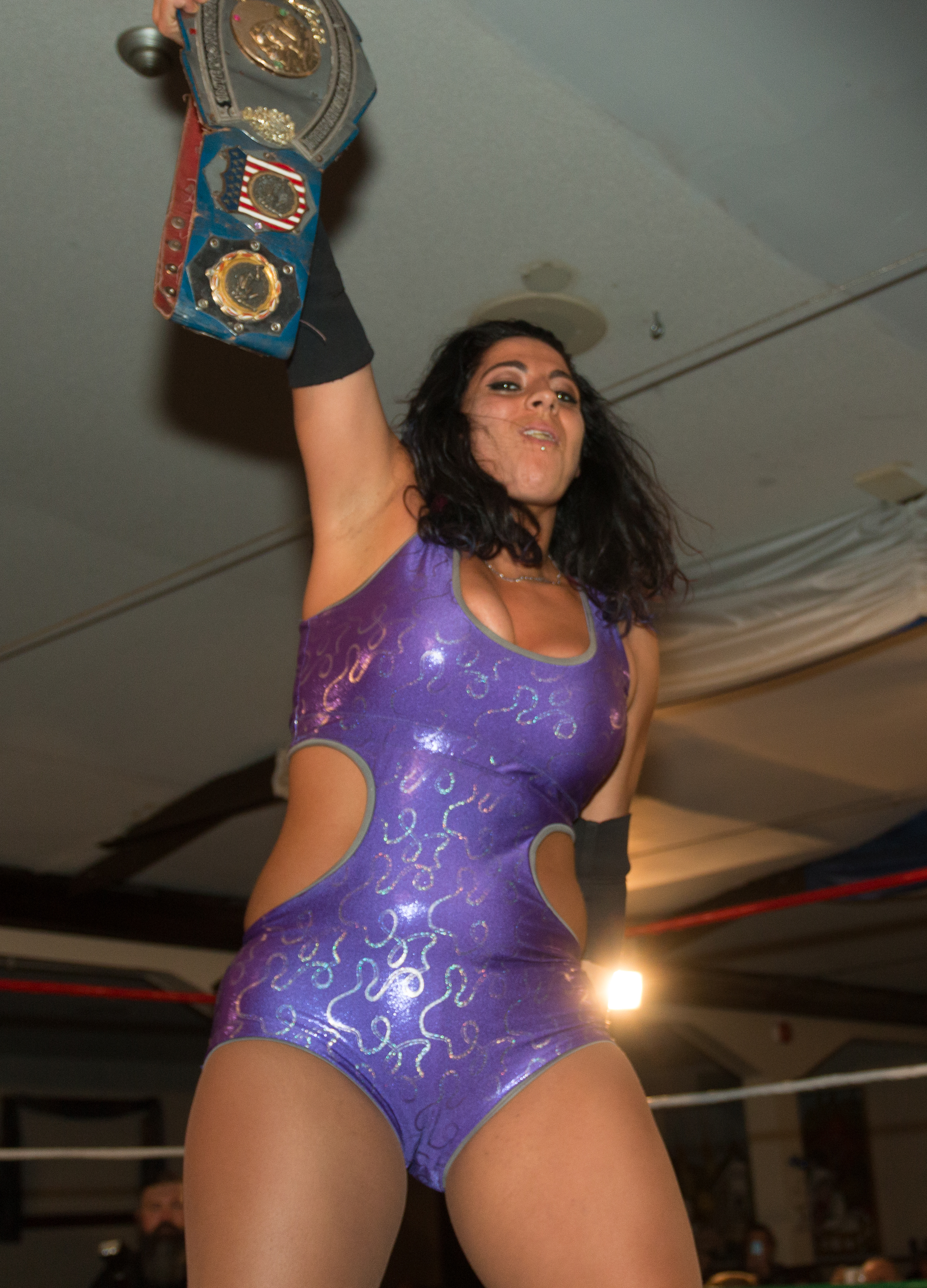 Independent wrestler KC Spinelli posing with the PWA Women's championship belt at a show in Kitchener, ON